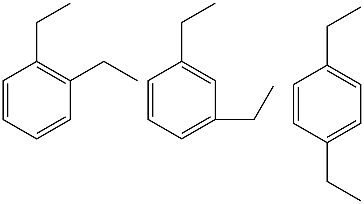 The structures of the isomeric o-, m-, and p-diethylbenzenes. Drawn with ChemBioDraw Ultra 12.0.2.